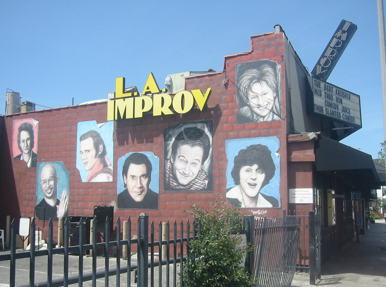 The Improv Comedy Club on Melrose Avenue in Hollywood, California